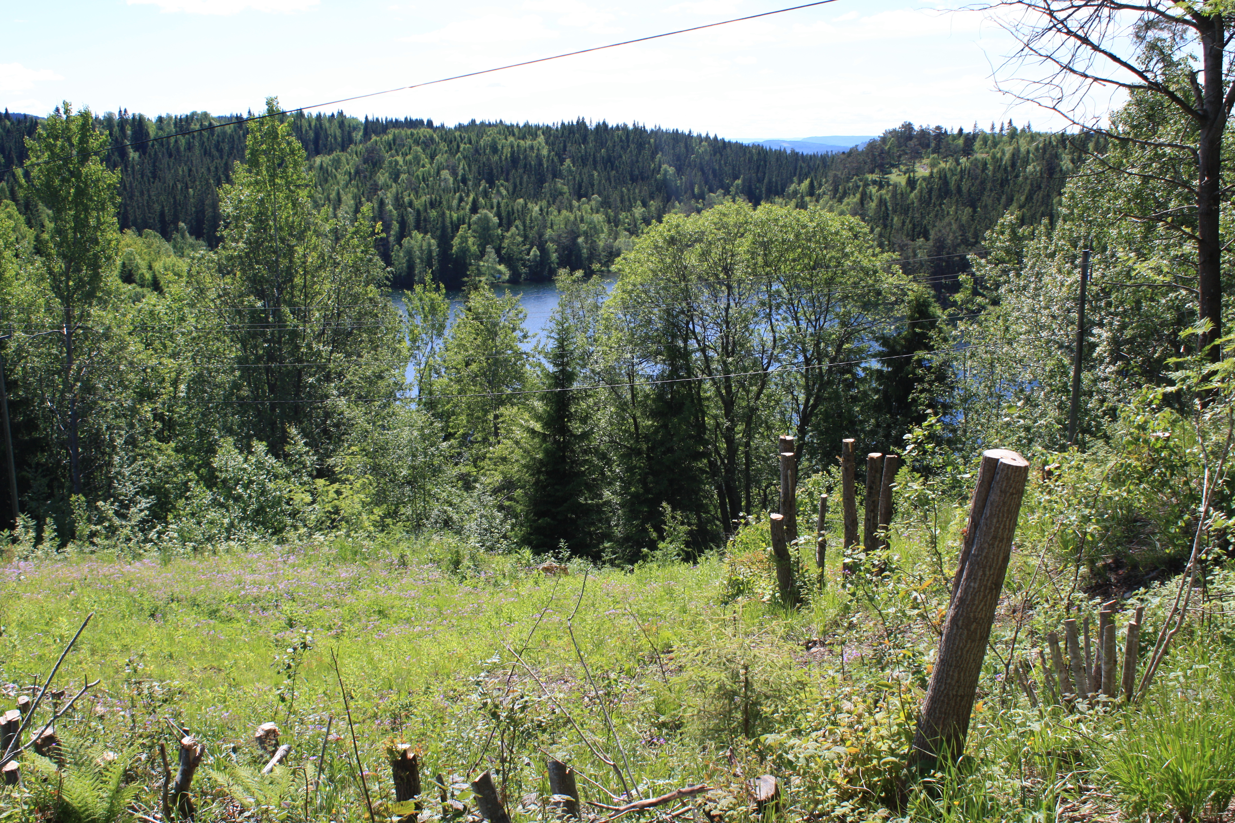 Blankvann